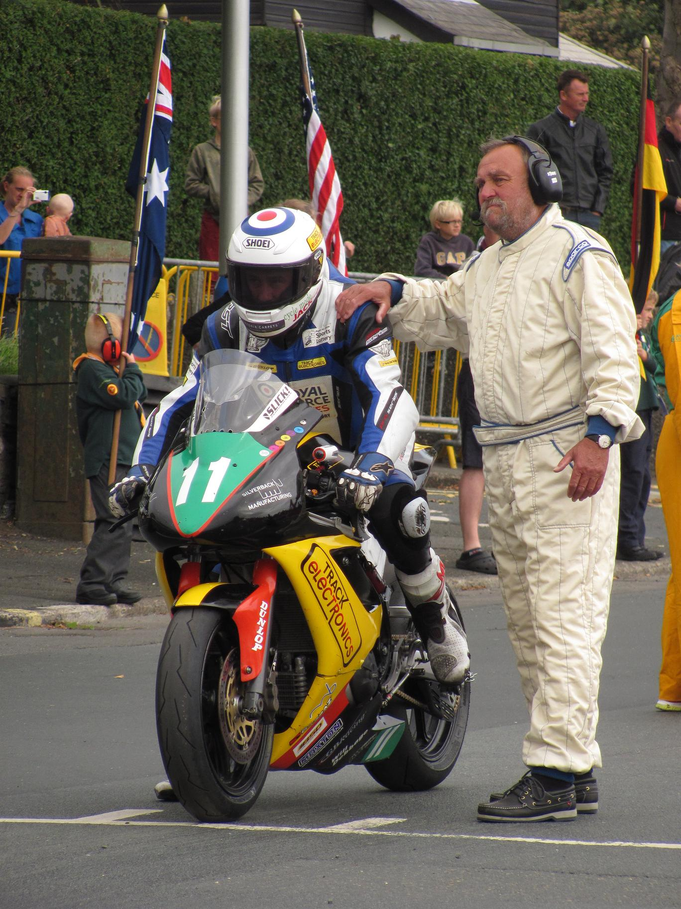 Michael Russell - 650cc Super-Twins Race 2013 Manx Grand Prix